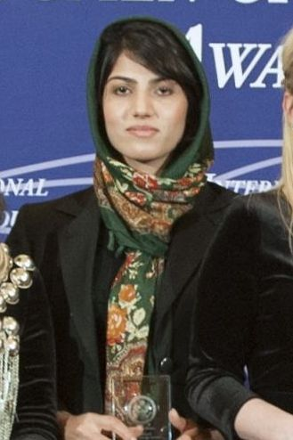 Niloofar Rahmani (Afghanistan) - 2015 - International Women of Courage Award